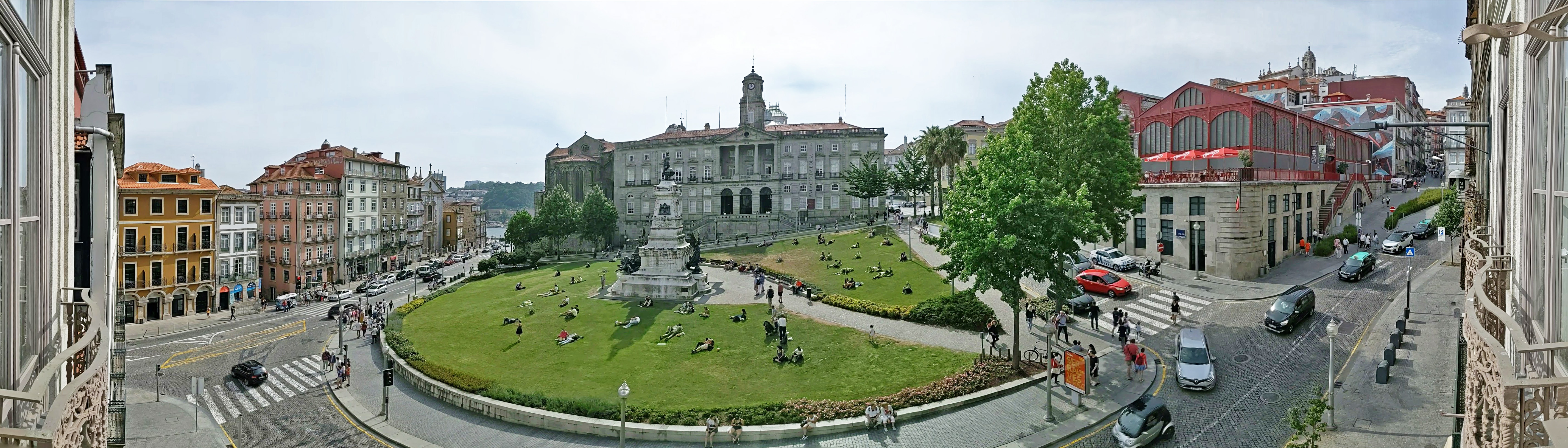 Panoramic view from a balcony of Jardin do Infante Dom Henrique and Palacio da Bolsa in Porto, Portugal.